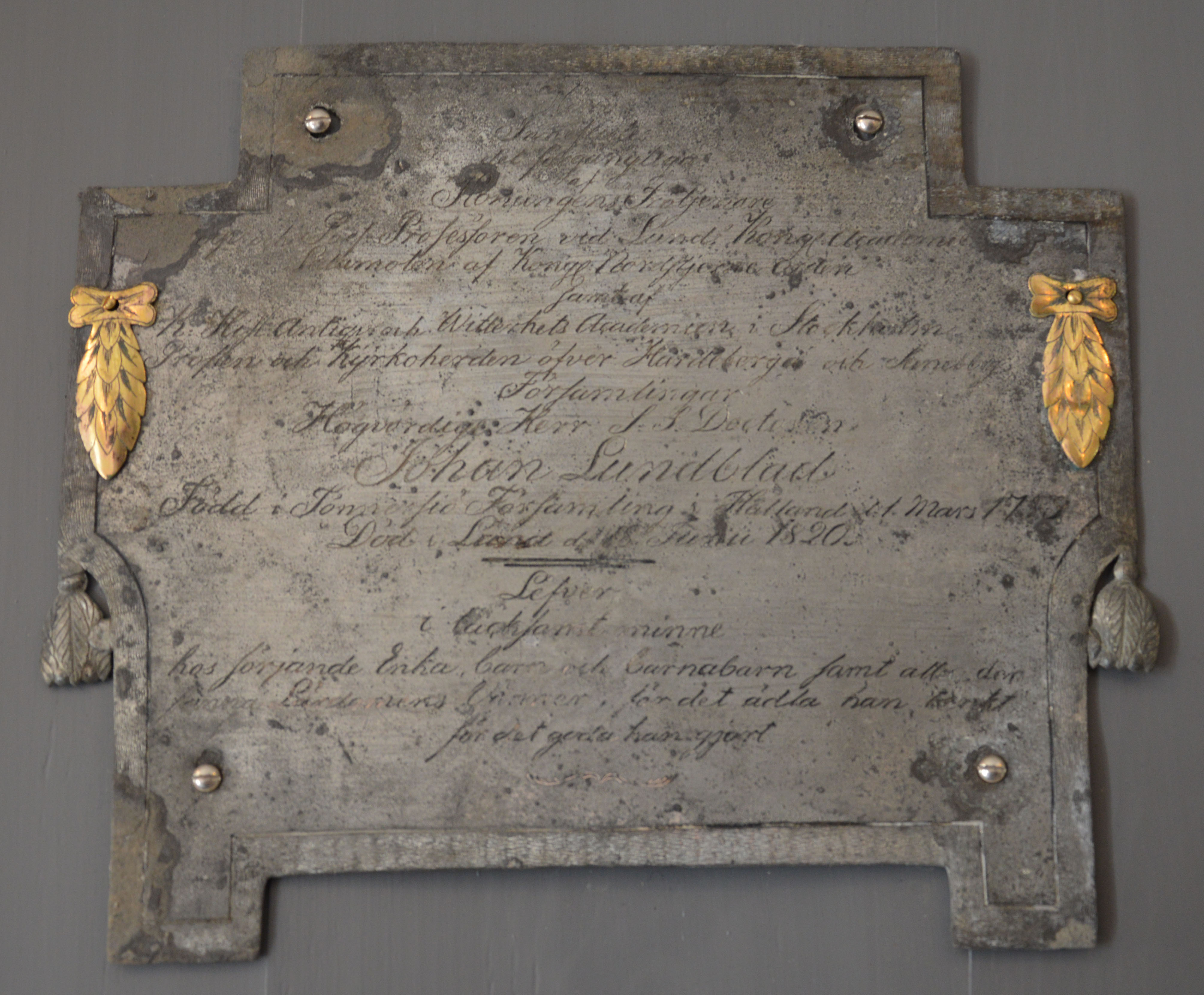 Plaquette from the coffin of swedish professor Johan Lundblad (1753-1820) in Hardeberga kyrka, Scania, Sweden. In swedish it says: "Här / Inneslutes / Det förgengliga / Af Konungens trotjenare / Eloquentiae et Poëseos Professorn vid Lunds Kongl Academie / Ledamoten af Kongl. Nordsterneorden / Samt af / K: Hist Antiqv. Och Witterhets Academien i Stockholm / Prosten och Kyrkoherden öfver Hardeberga och Sandby / Församlingar / Högvördige Herr F Doctoren / Johan Lundblad / Född i Tönnersjö Församling i Halland d. 1 mars 1753 / Död i Lund d 18 Junii 1820 / Lefver / I tacksamt minne / hos sörjande Enka, Barn och Barnabarn, samt alla den / Sanna Lärdomens Vänner, för det ädla han tänkt / För det goda han gjort"